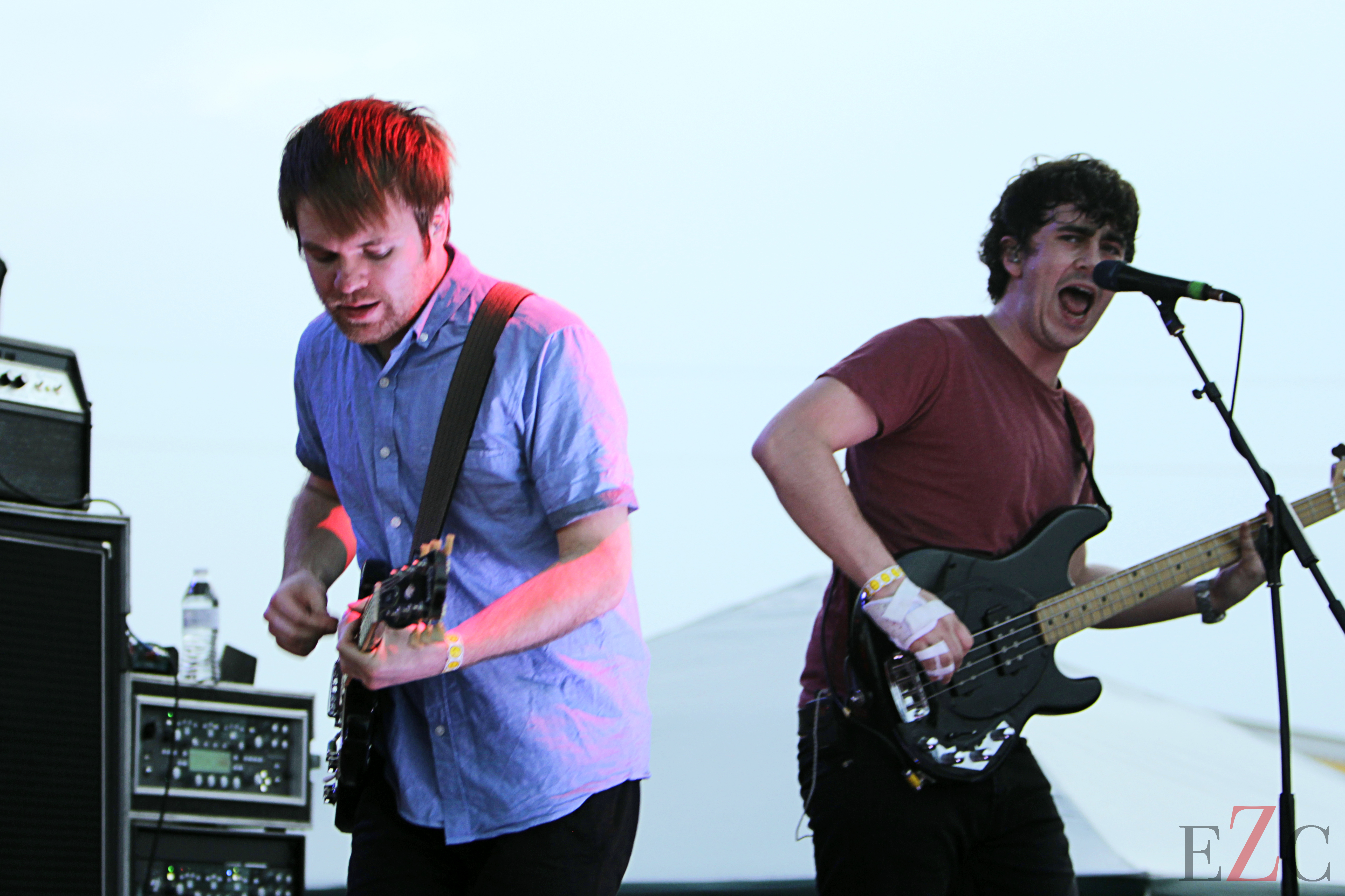 Enter Shikari performing in 2015